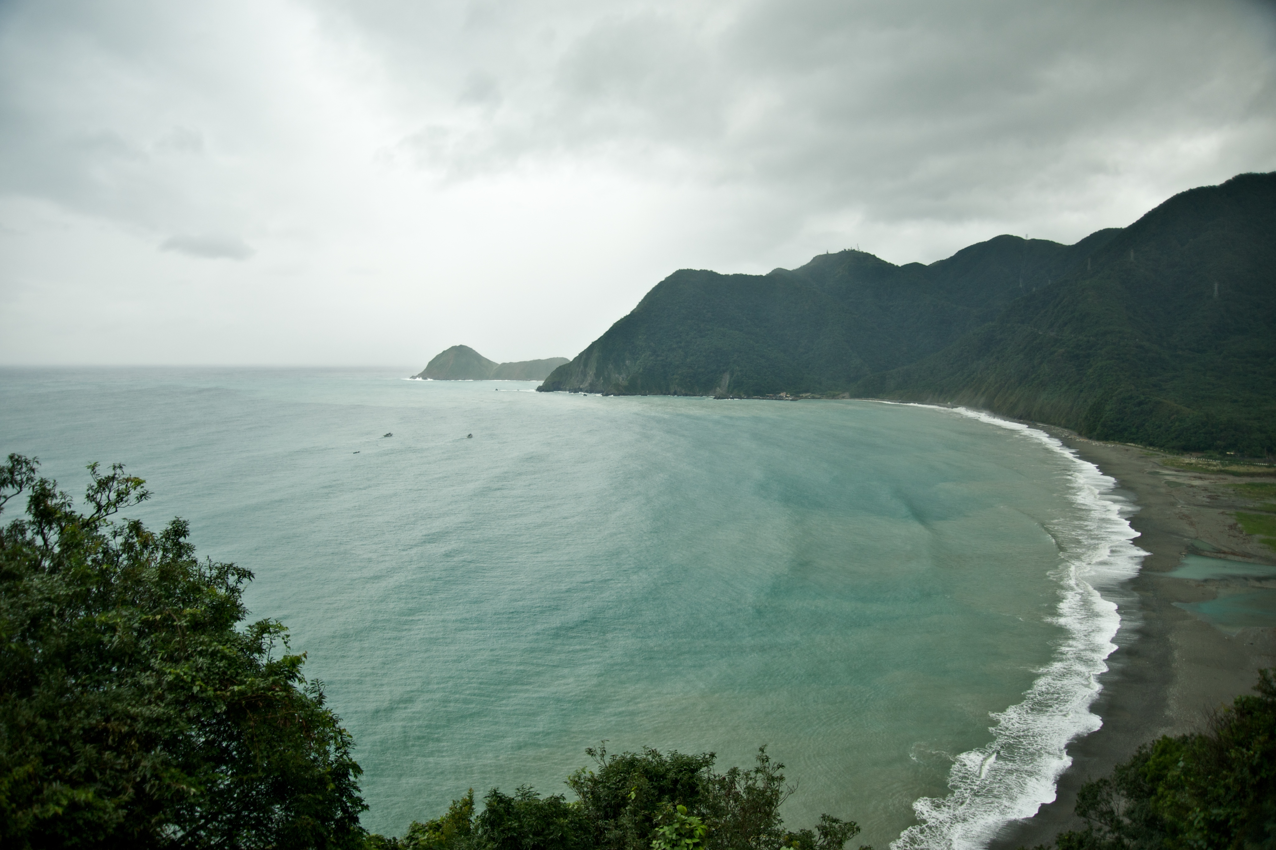 WuShihBi Cape seen behind the DongAo Bay, from the SuHua Highway, a scenic drive on the east coast of Taiwan